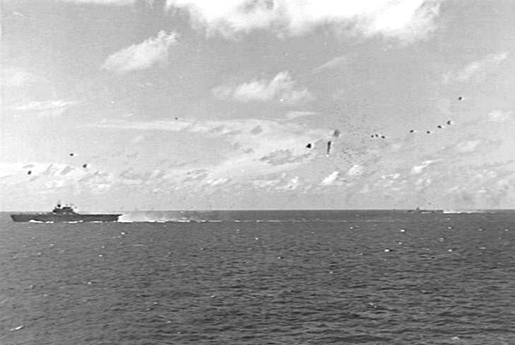 The U.S. Navy Task Group 38.4 under attack by Japanese aircraft during the Battle of Leyte Gulf in October 1944. Visble are the aircraft carrier USS Enterprise (CV-6) and an Independence-class light carrier (right), either USS Bellau Wood (CVL-24) or USS San Jacinto (CVL-30).